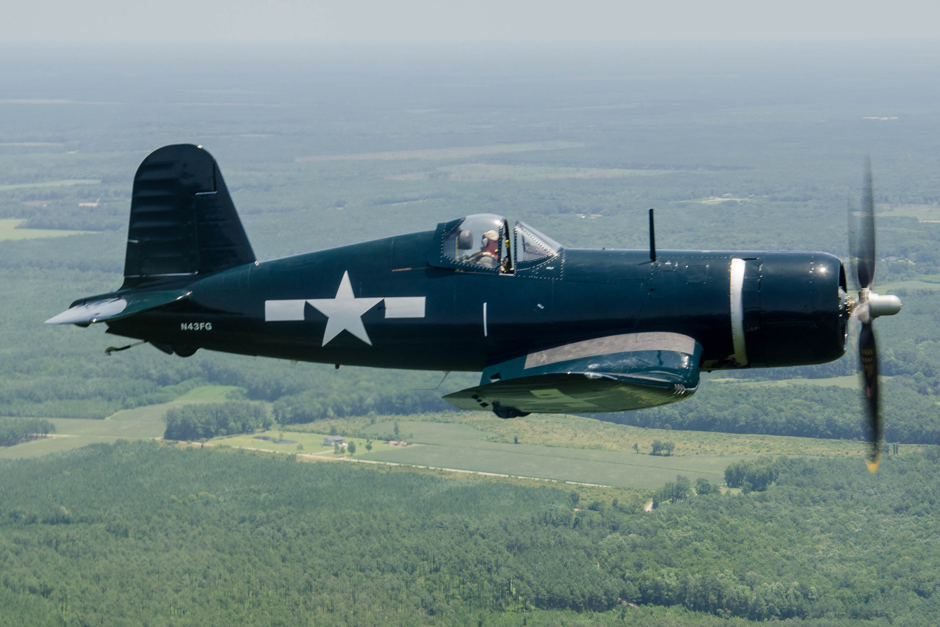 x-RNZAF FG-1D NZ5612. 2015 South Carolina Salute from the Shore, north of Myrtle Beach, South Carolina. Photo taken from SNJ-6 Texan.